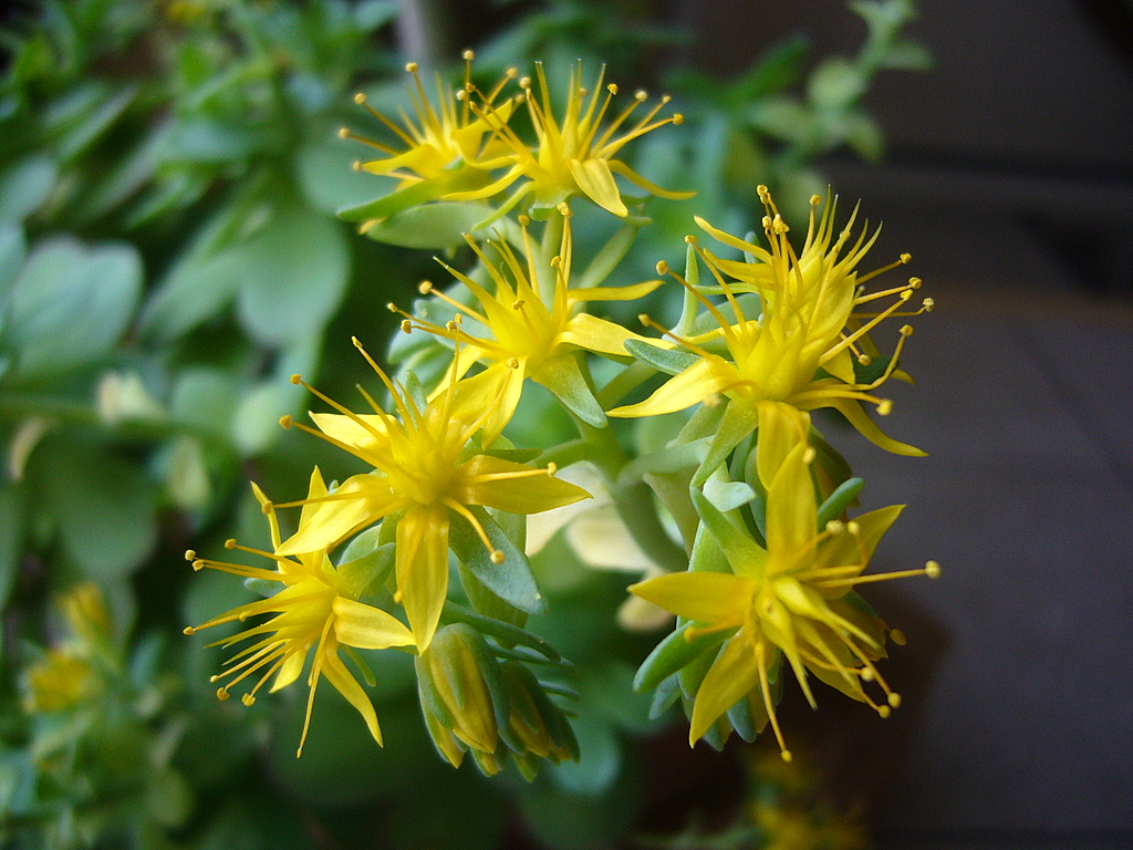 Sedum palmeri flowers